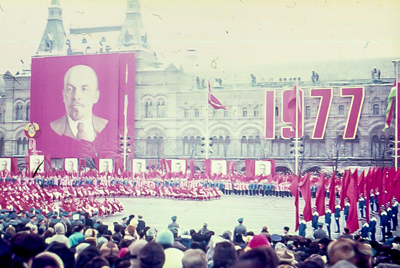 Official demonstration on 7 November 1977 on the Red Square in Moscow